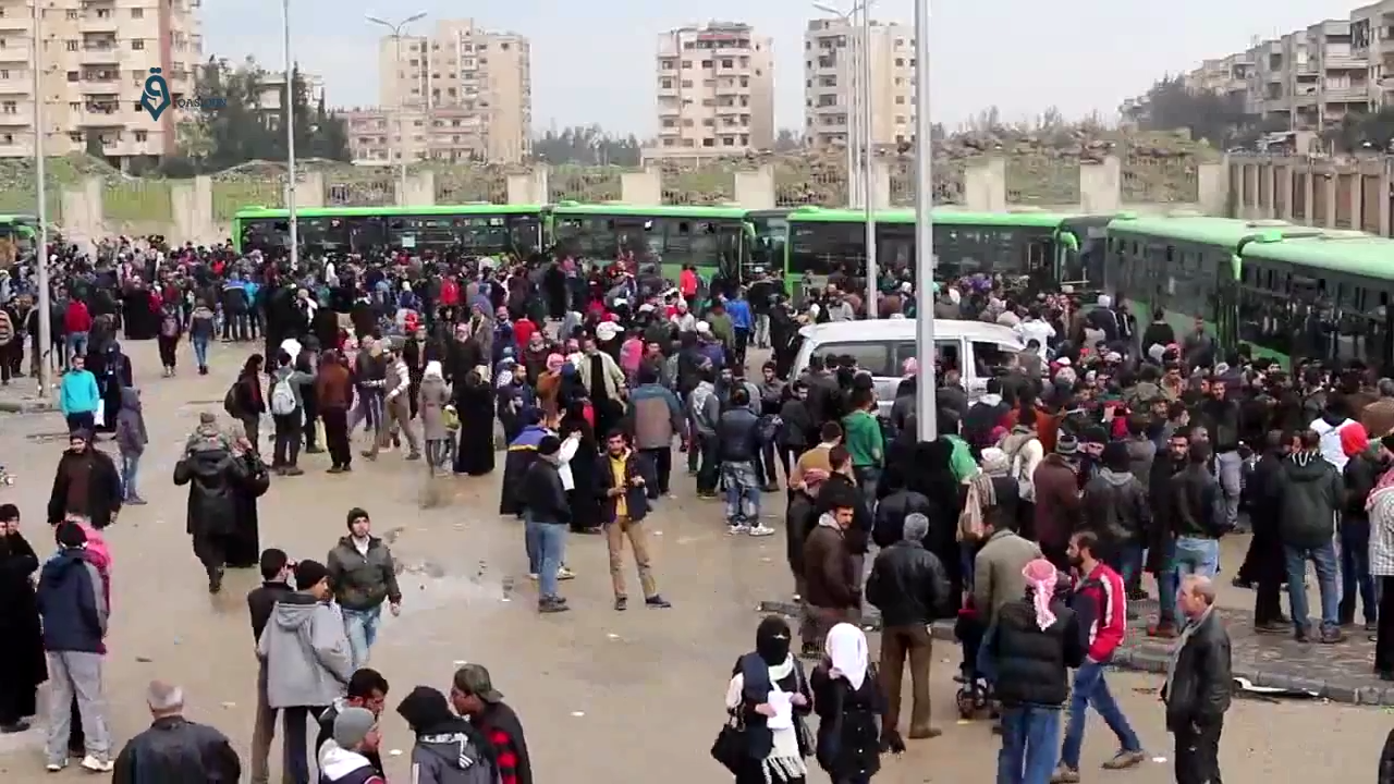 Rebels and civilians prepare to evacuate the Waer neighbourhood of the city of Homs in western Syria and head to Jarabulus in the north after an agreement to surrender to government forces.